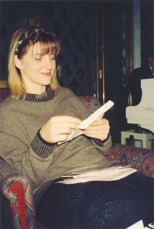 Lucia reads mail, photo by Carole Edrich